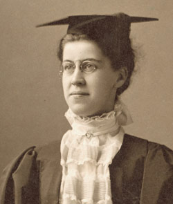 Katharine Wright graduating from Oberlin College in 1898